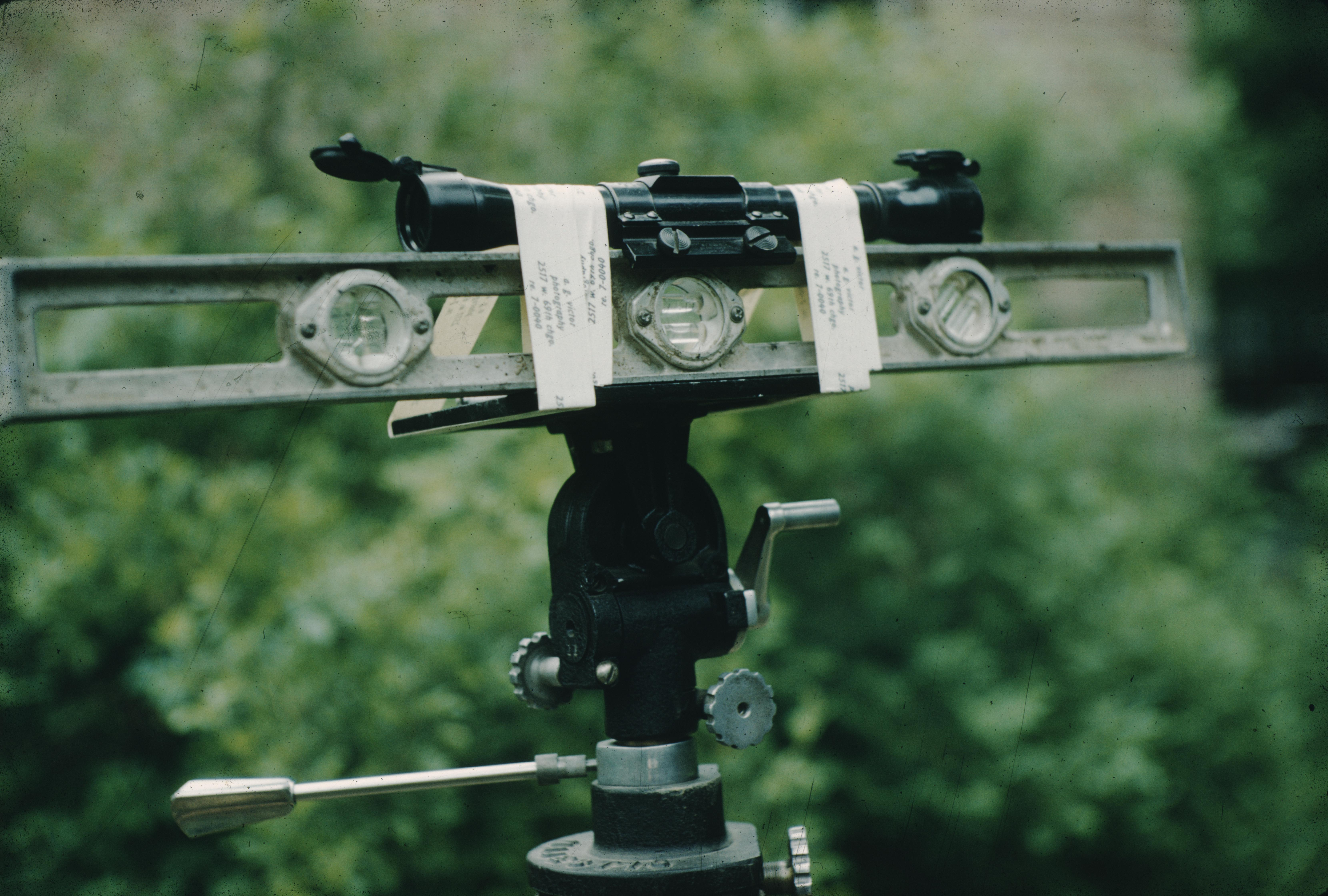 CyberViewX v5.16.55 Model Code=58 F/W Version=1.21 Photography by Victor Albert Grigas (1919-2017)